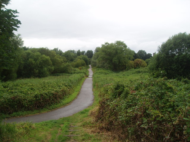 Rimrose Valley Nature Reserve, Litherland, Merseyside View of pathway, looking west. This nature reserve is run and managed by the Sefton Ranger Service.